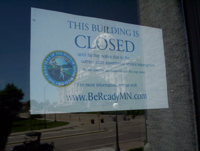 Sign in front of the Minnesota State Office Building stating that the building and office are closed due to the 2011 Minnesota State Government Shutdown. The building in the photo is a reflection of the Minnesota Capitol building across the street from the window.